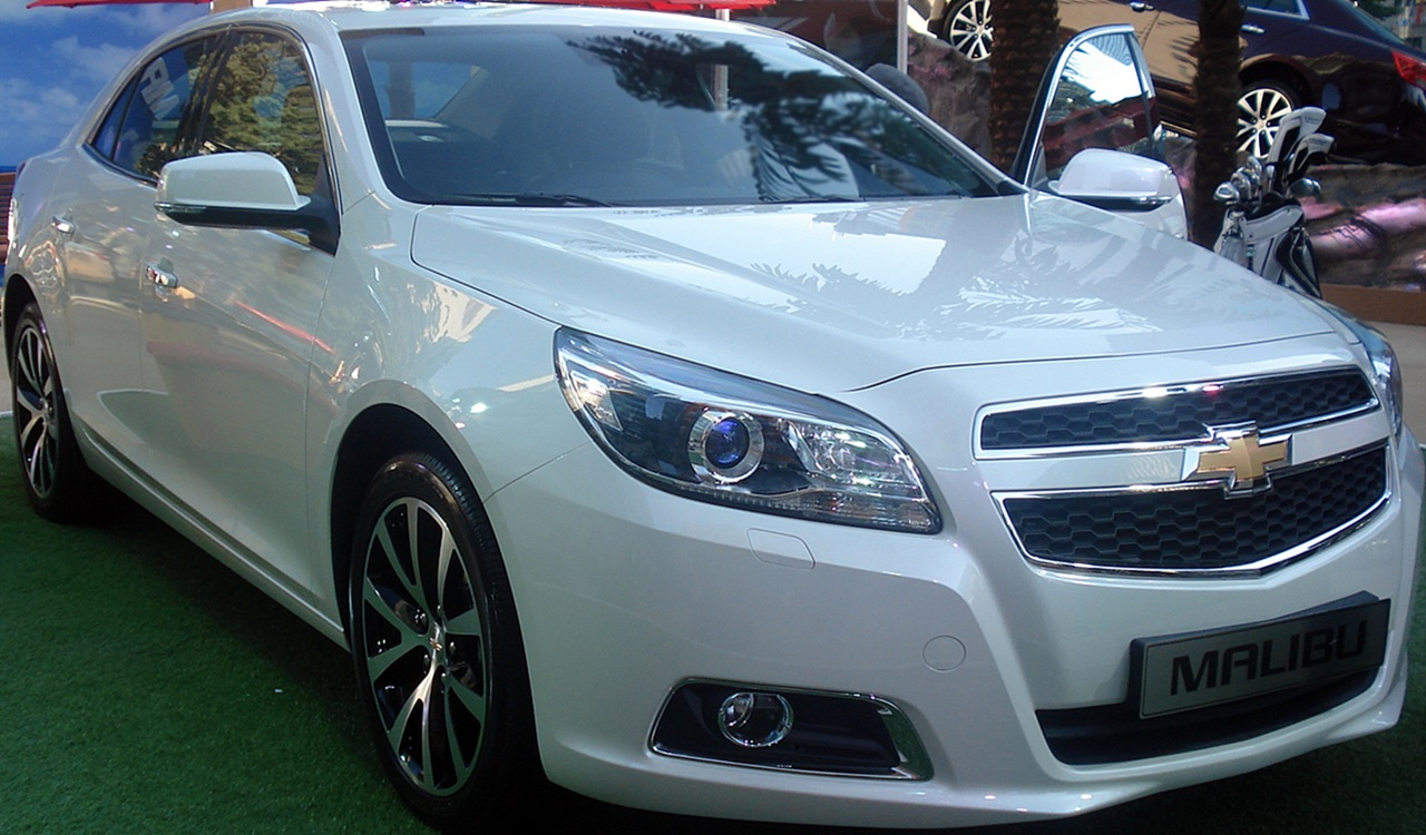 Chevrolet Malibu